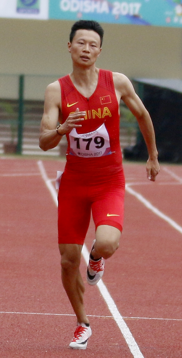 Athletes during 22nd Asian Athletics Championships in Bhubaneswar.